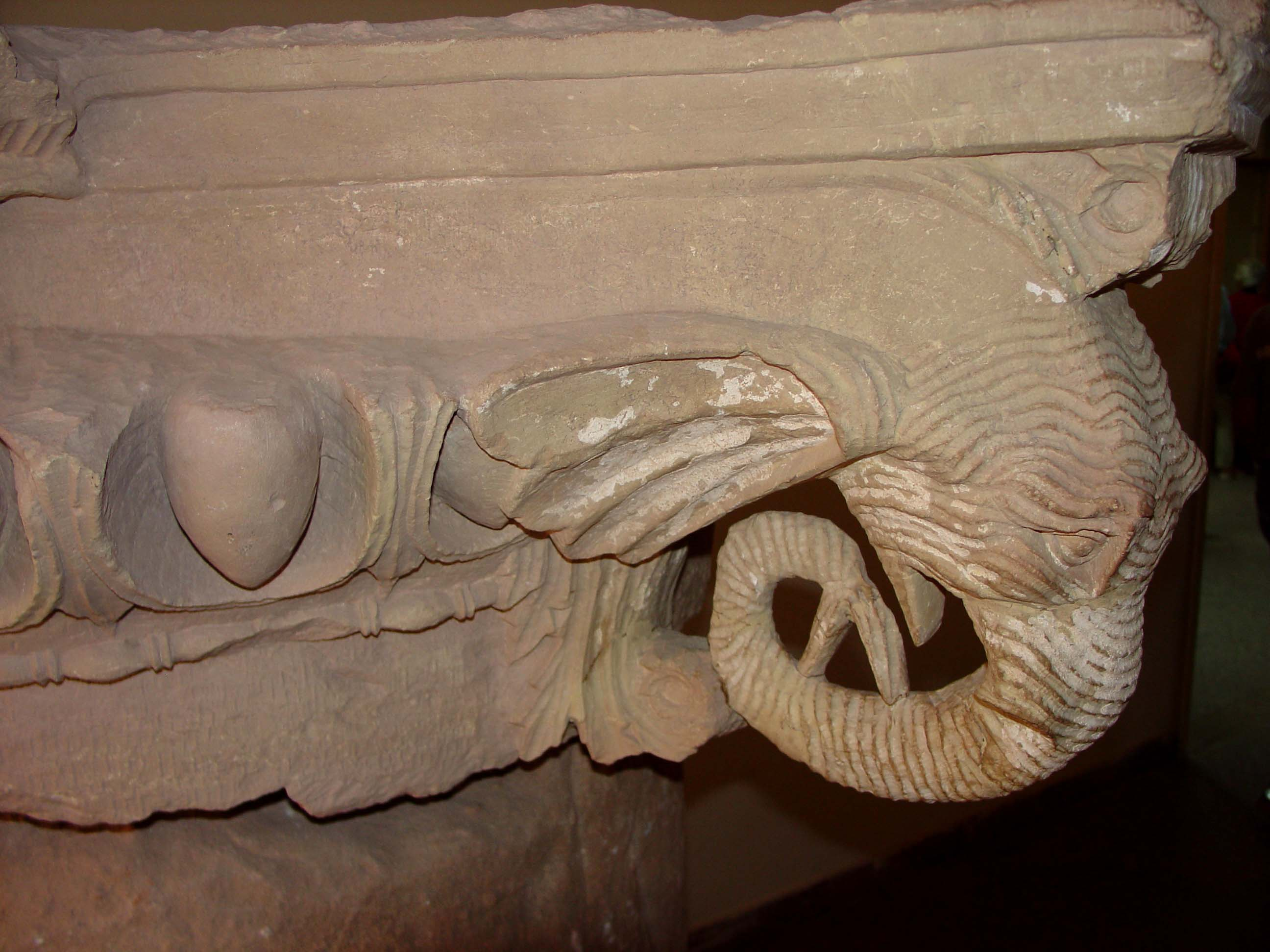 This capital, displayed in the Petra Museum, is from the triple colonnade on the lower terrace of Petra's Great Temple. Elephant heads are substituted for the volutes, between which the capital is worked in a band of "egg-and-dart" design. The capital is thus a modification of the Ionic order (adaptations of all three classical orders are seen in Petra.) Nothing could show more delightfully the Nabataean genius for putting their own, unique "spin" on an adopted architectural vocabulary of classical forms.